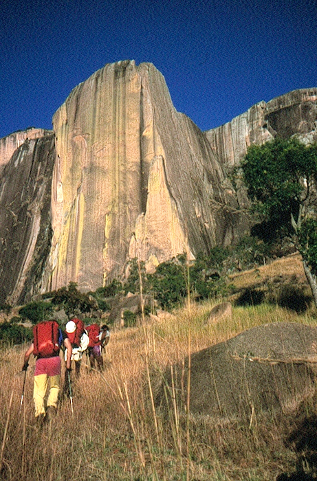 East Face of Karambony in Tsaranoro Valley, Madagascar